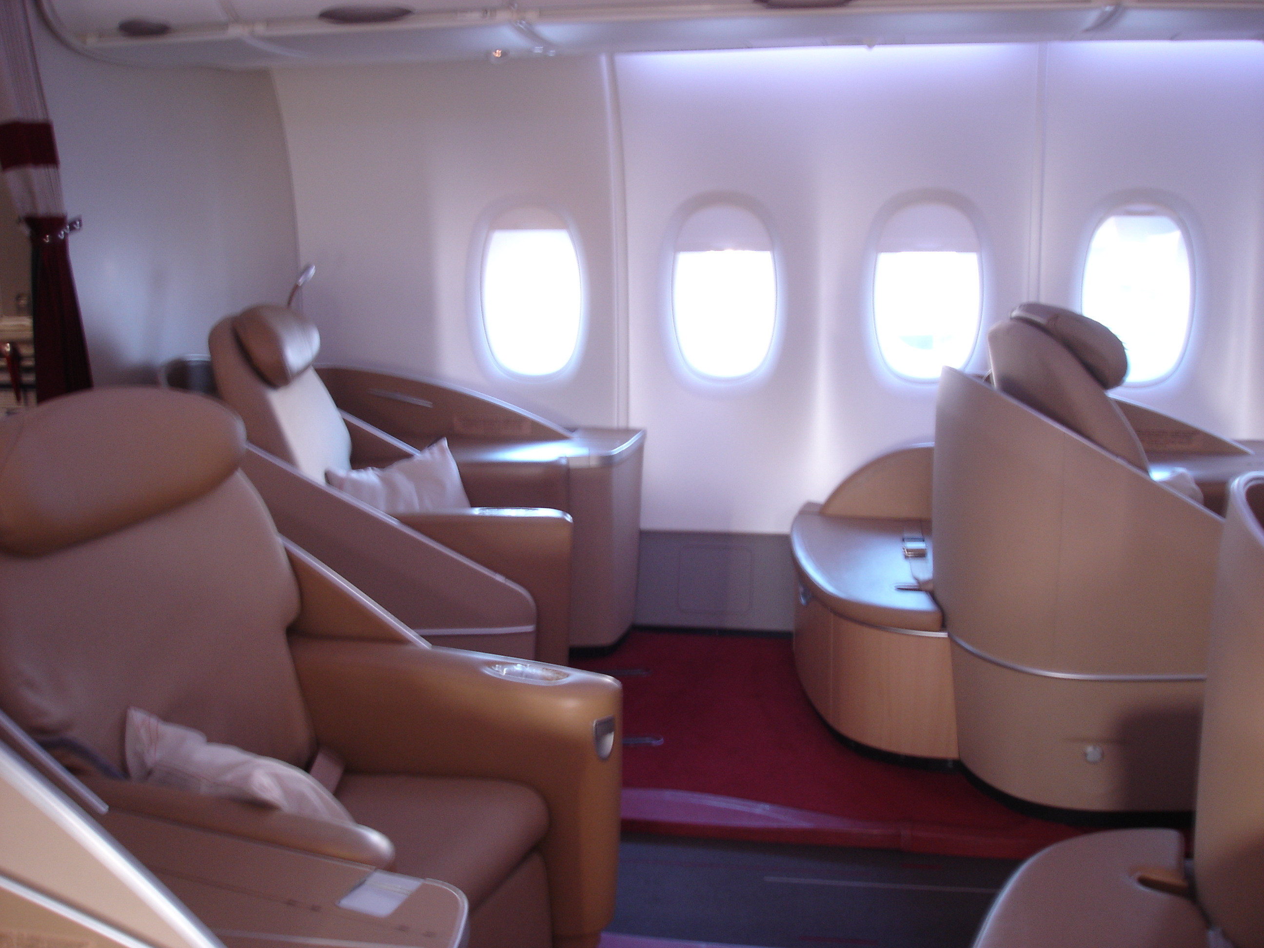 La Premiere : First Class on Air France's Airbus A380.